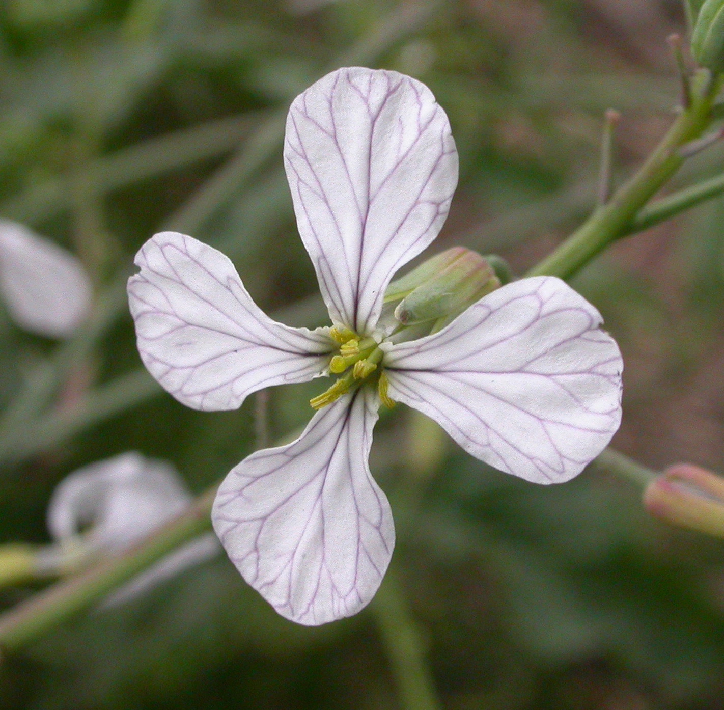 Photographed in Voorhis Ecological Reserve near Pomona, CA, USA. Species is an introduced weed.